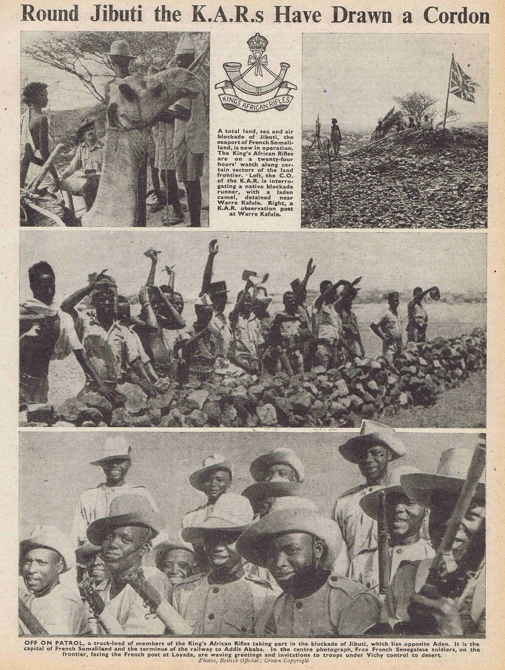 Page from a British army publication highlighting episodes of the Allied land blockade of Vichy-controlled French Somaliland, enforced primarily by the King's African Rifles (KAR) from British East Africa. Top, left: Chief Officer of the KAR is interrogating a native blockade runner; Top, right: A KAR observation post at Warre Kafule; Center: Free French Senegalese soldiers deployed on the frontier across from Loyada; and Bottom: a truckload of Tanganyikan soldiers of the KAR.